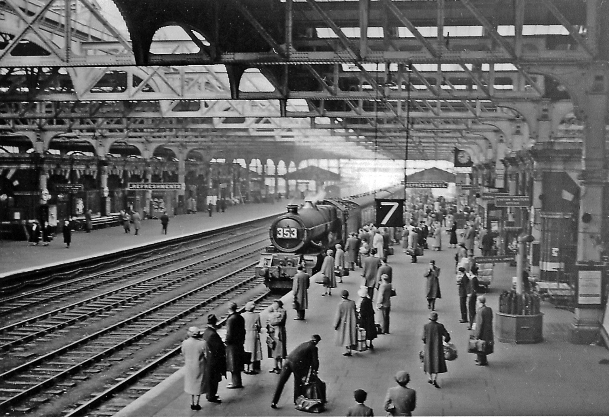 Birmingham Snow Hill Station. View in 1957 NW, towards Wolverhampton etc. from footbridge, of main Up platform. The 07.30 Shrewsbury - Paddington express is arriving, headed by a 'King' 4-6-0. (Note how well-dressed everyone is!)